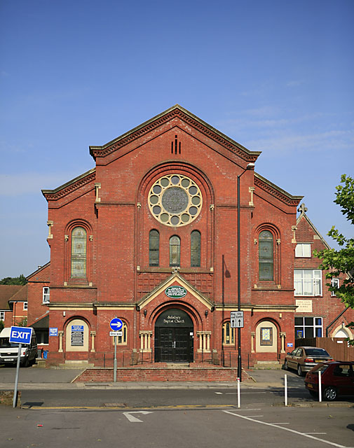 Baptist Church in Brown Street, Salisbury, Wiltshire. It was built in the 1880s on the site of the church where Maria Grace Saffery met her husband.